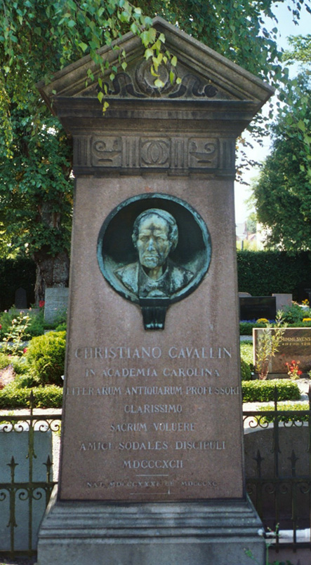 The tombstone of Christian Cavallin (1831-1890), Swedish professor of Greek at Lund University, author of several well-known latin dictionaries, at the churchyard of Sankt Peters Klosters kyrka, Lund.